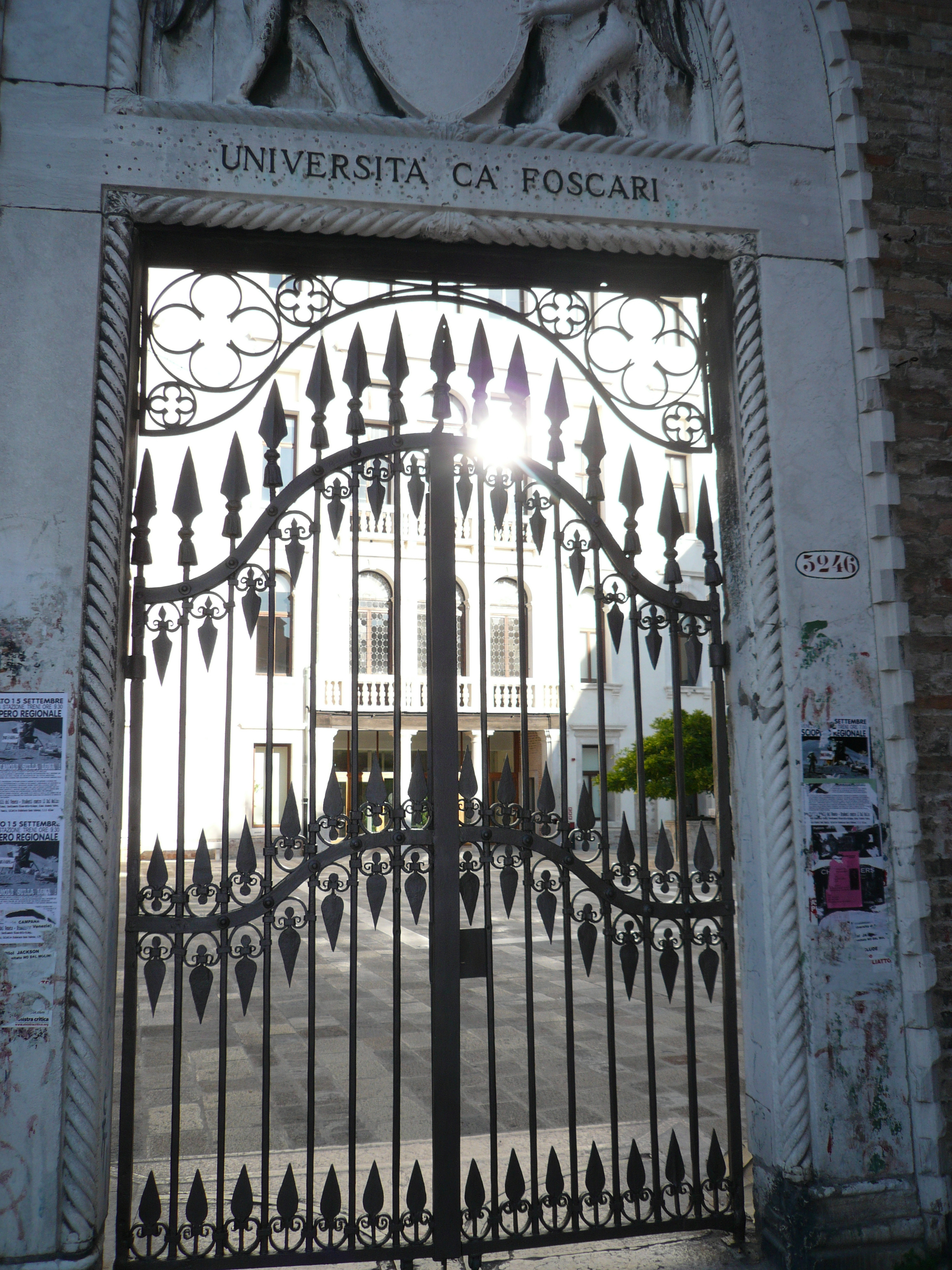 Ca' Foscari University (Venice, Italy) - Main entrance.